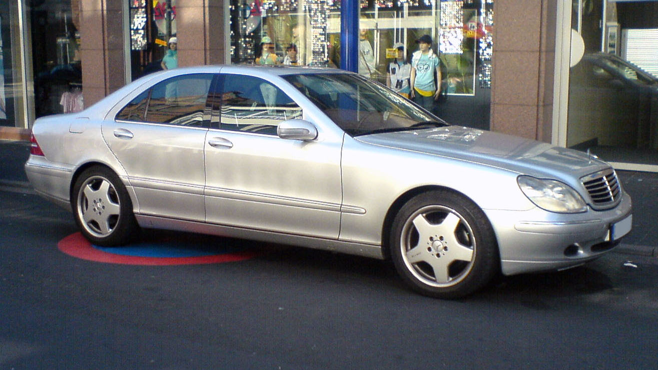 Mercedes S-Class on a "no parking!" sign